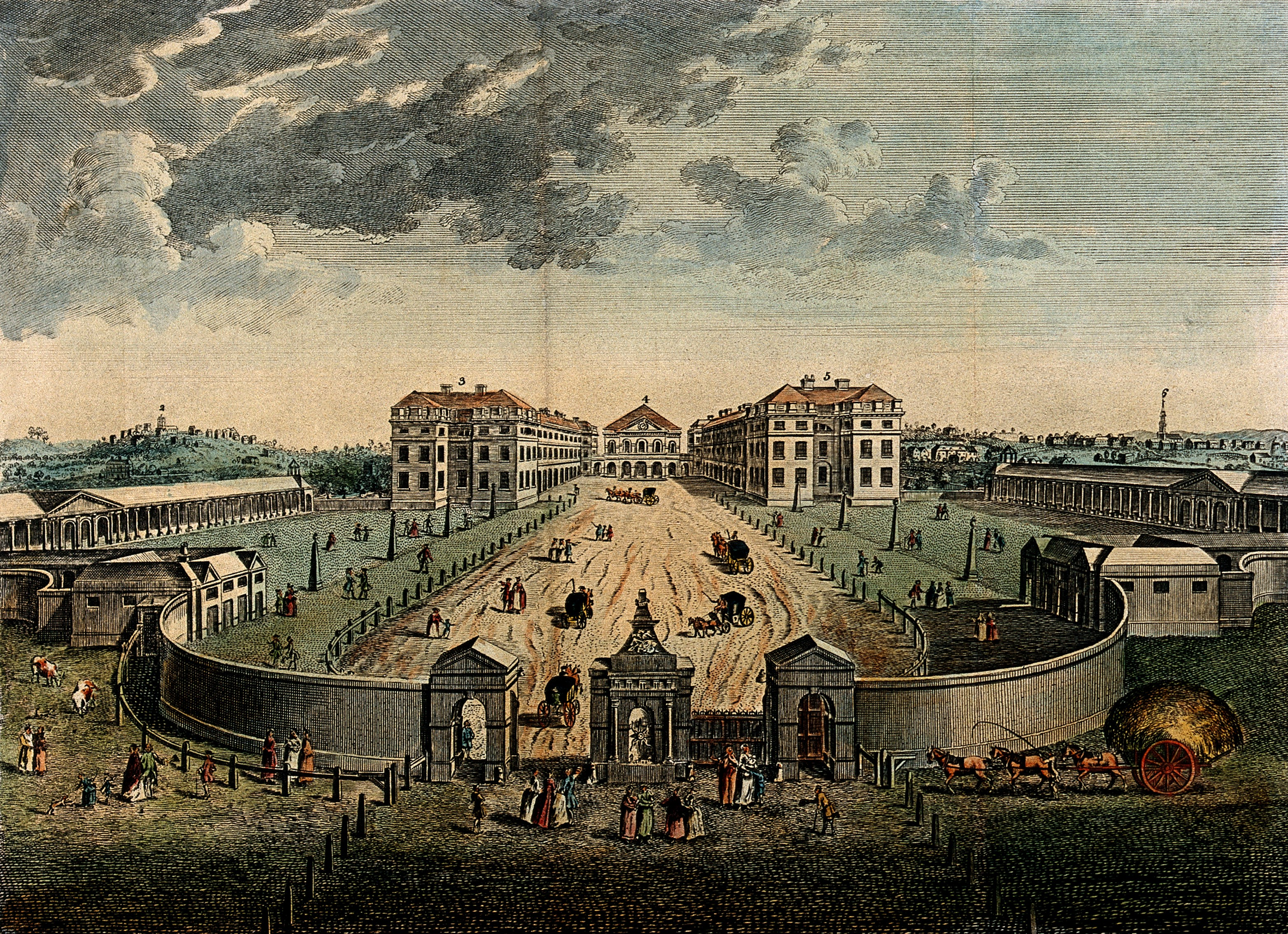 The Foundling Hospital, Holborn, London: a bird's-eye view of the courtyard, numbered for a key. Coloured engraving after L. P. Boitard, 1753. Iconographic Collections Keywords: Louis-Pierre Boitard; Theodore Jacobsen; Foundling Hospital (London)